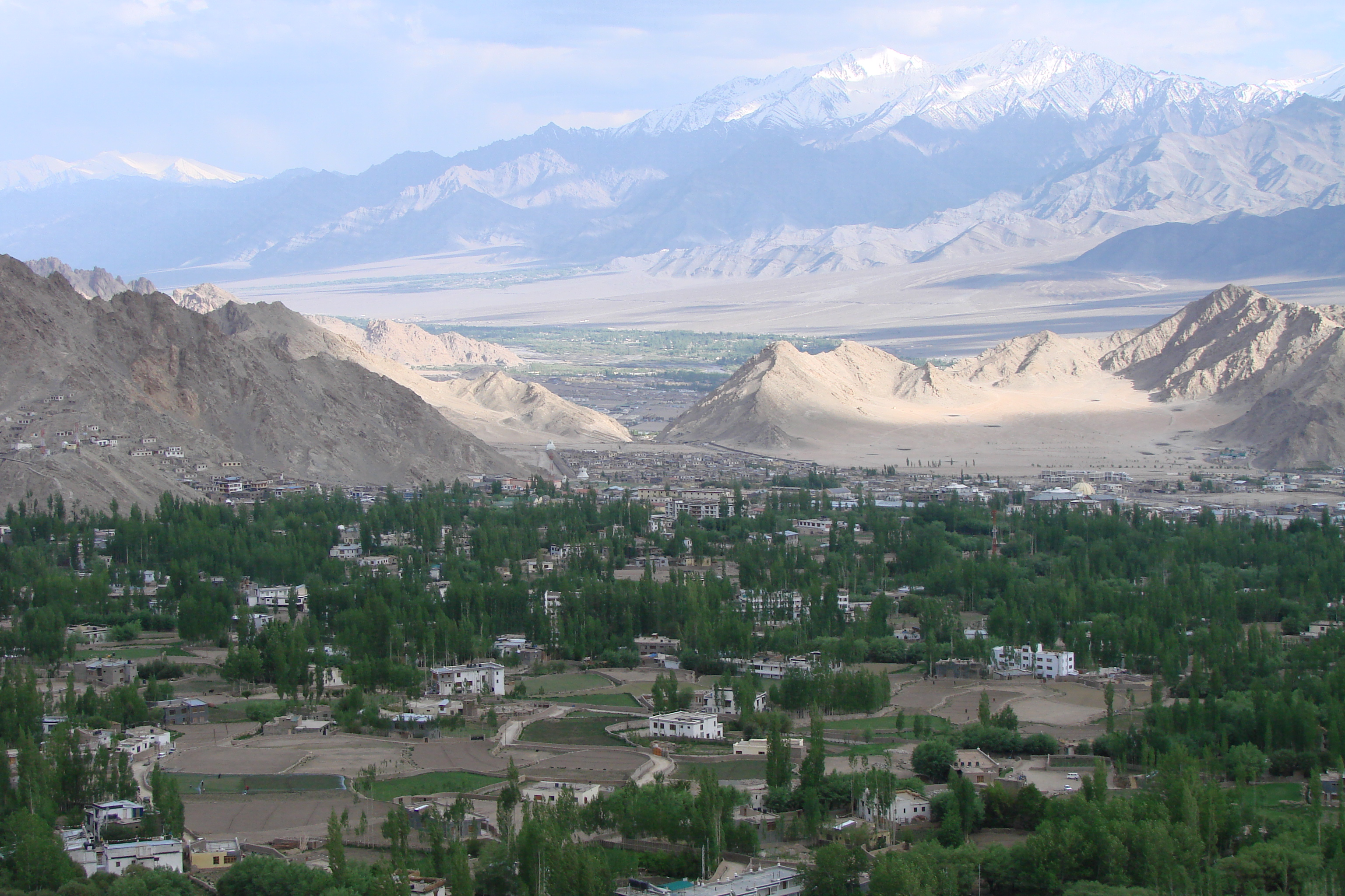 Complete view of Leh as viewed from stupa.